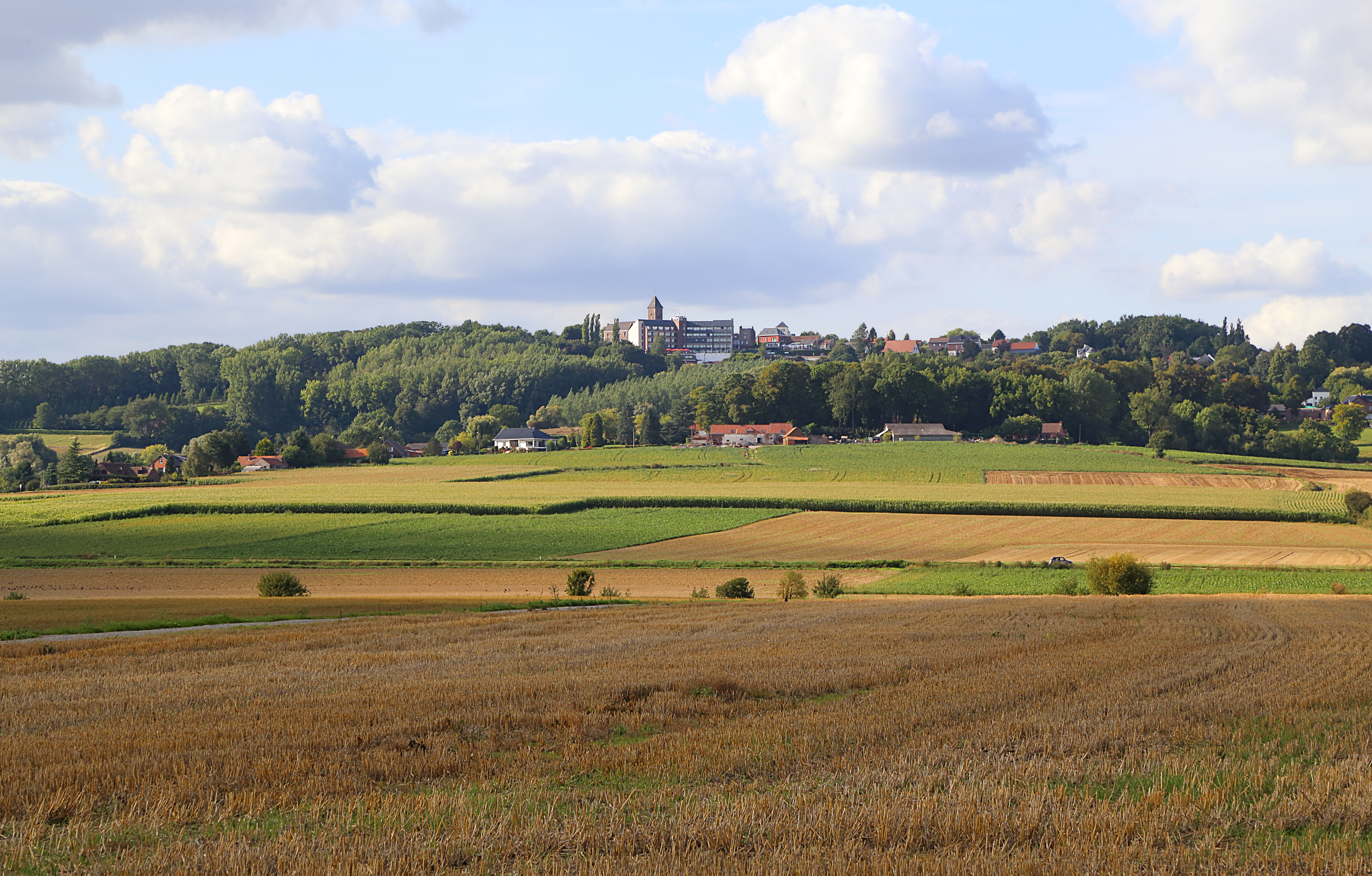 View on the Mont-Saint-Aubert, Belgium.